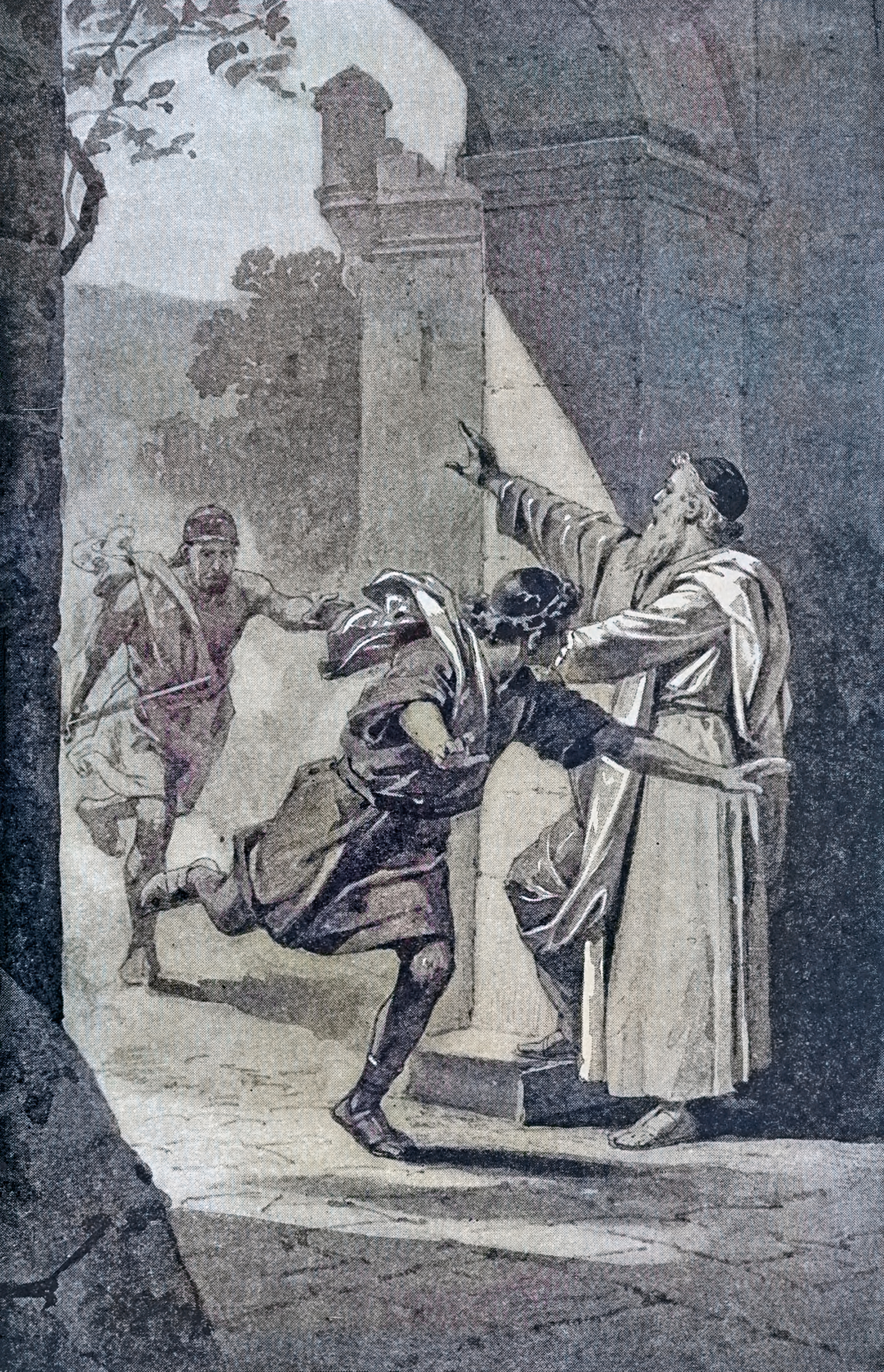 Fleeing to the City of Refuge, as in Numbers 35:11-28, illustration from page 173 of Charles Foster, The Story of the Bible, Philadelphia: A.J. Homan Co., 1884.